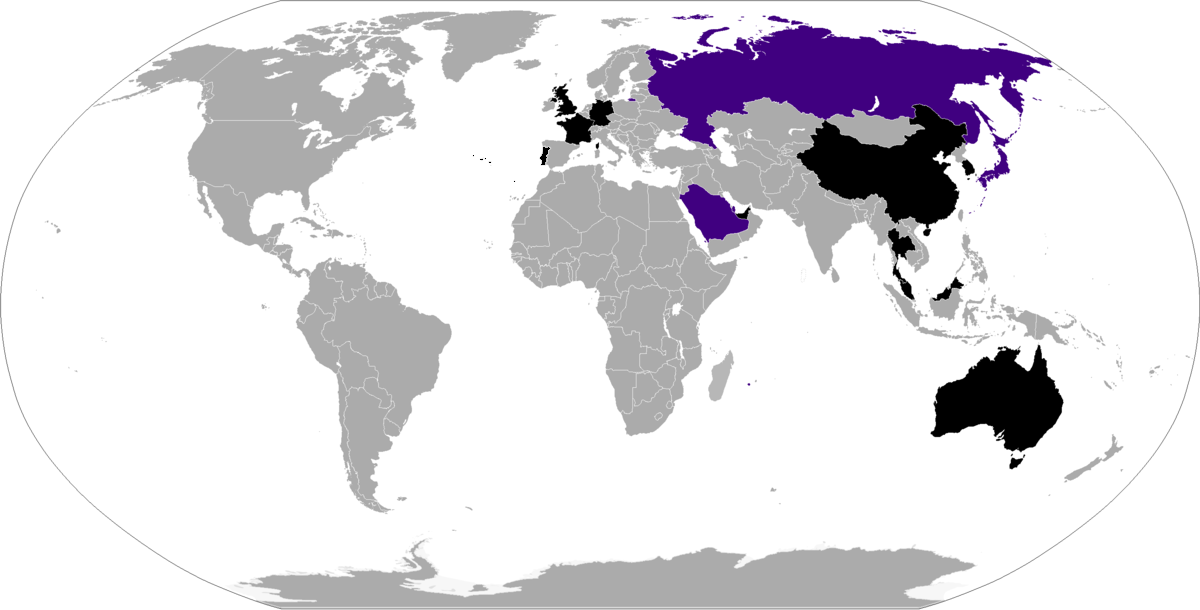 Mapa dos países com um ou mais A380.